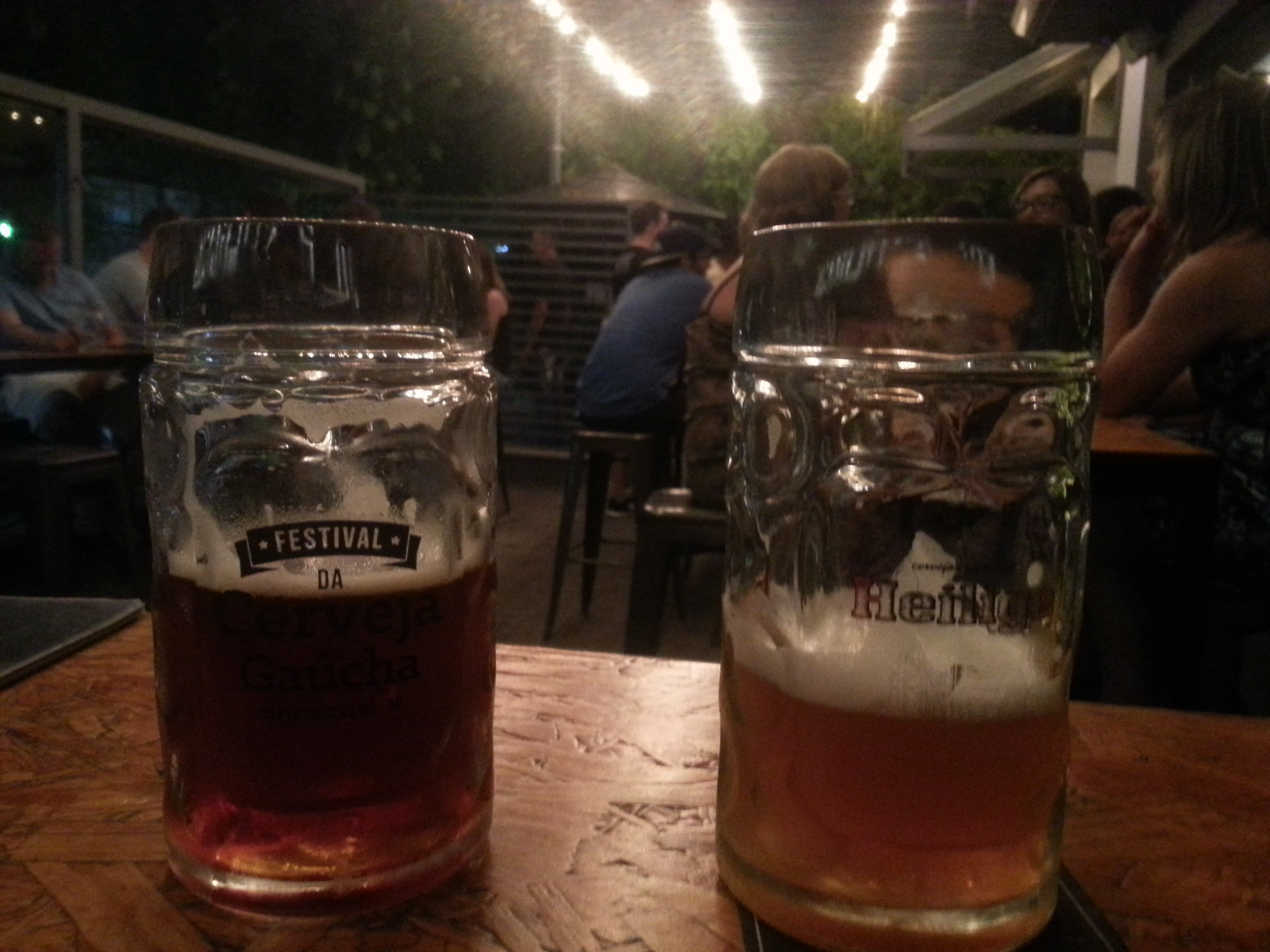 Heilige beer